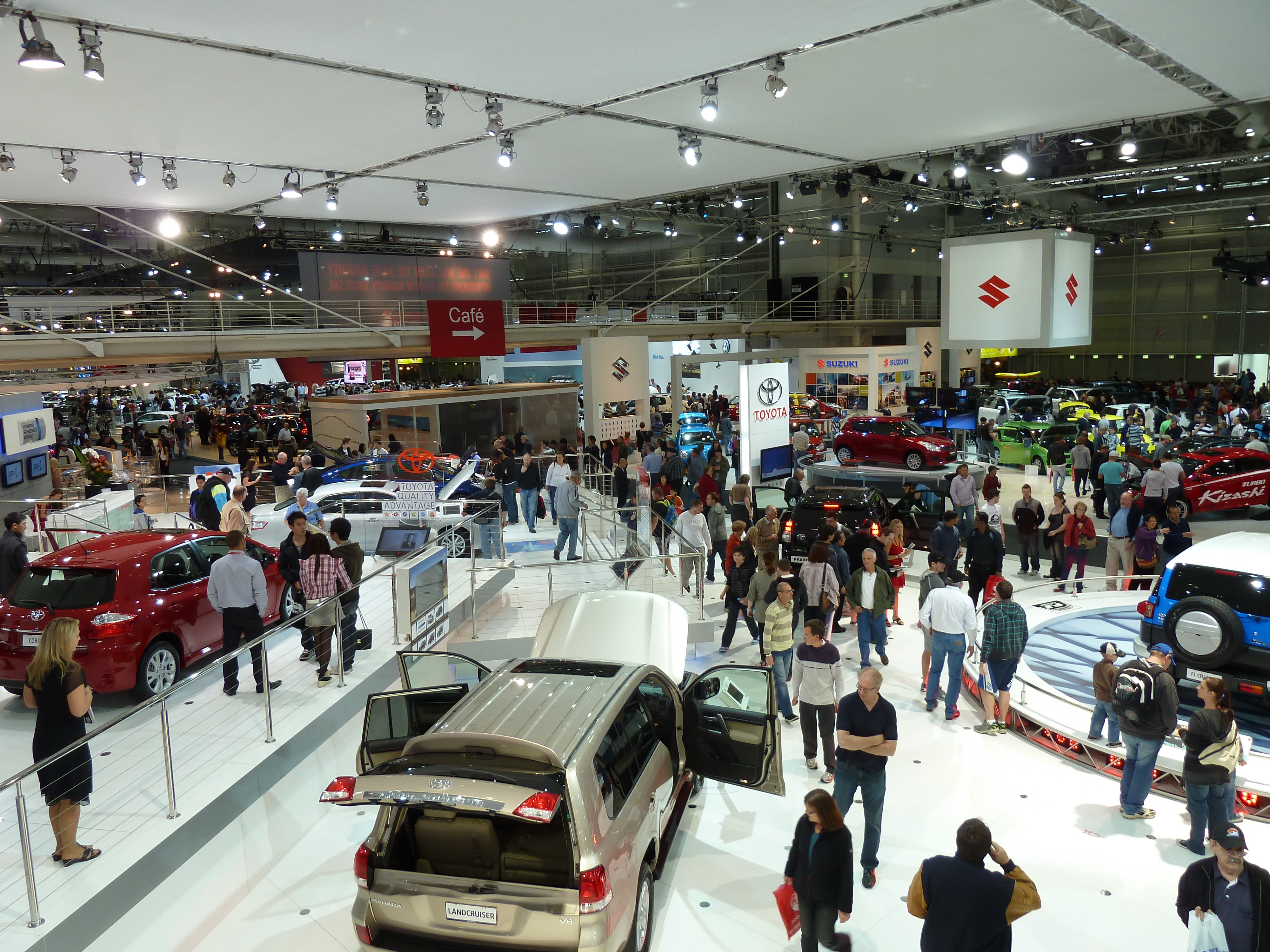 2010 Australian International Motor Show, Darling Harbour, New South Wales, Australia.